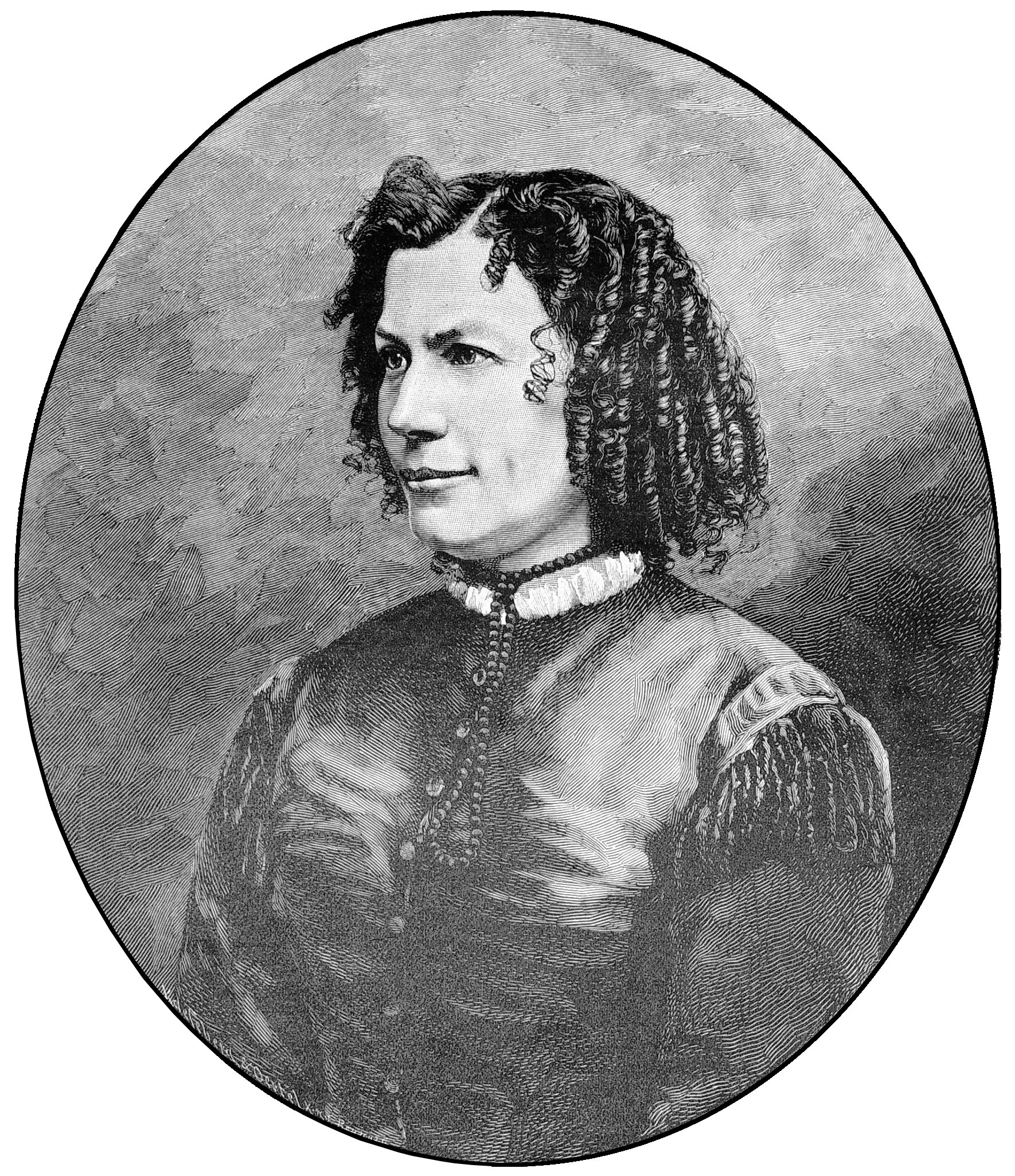 no caption